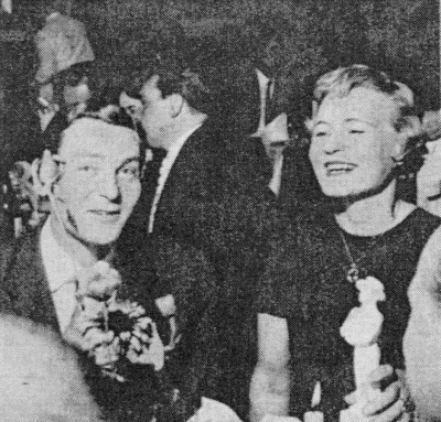 Jussi Award 1958. On left cinematographer Eino Heino and on right his wife film actress Emma Väänänen.